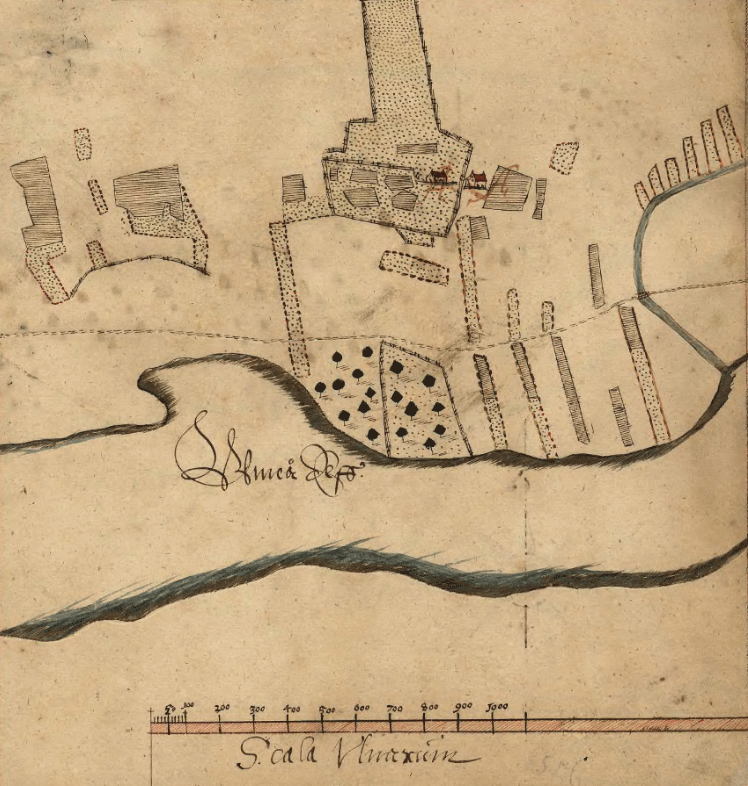 Map of the Royal Farm in Umeå